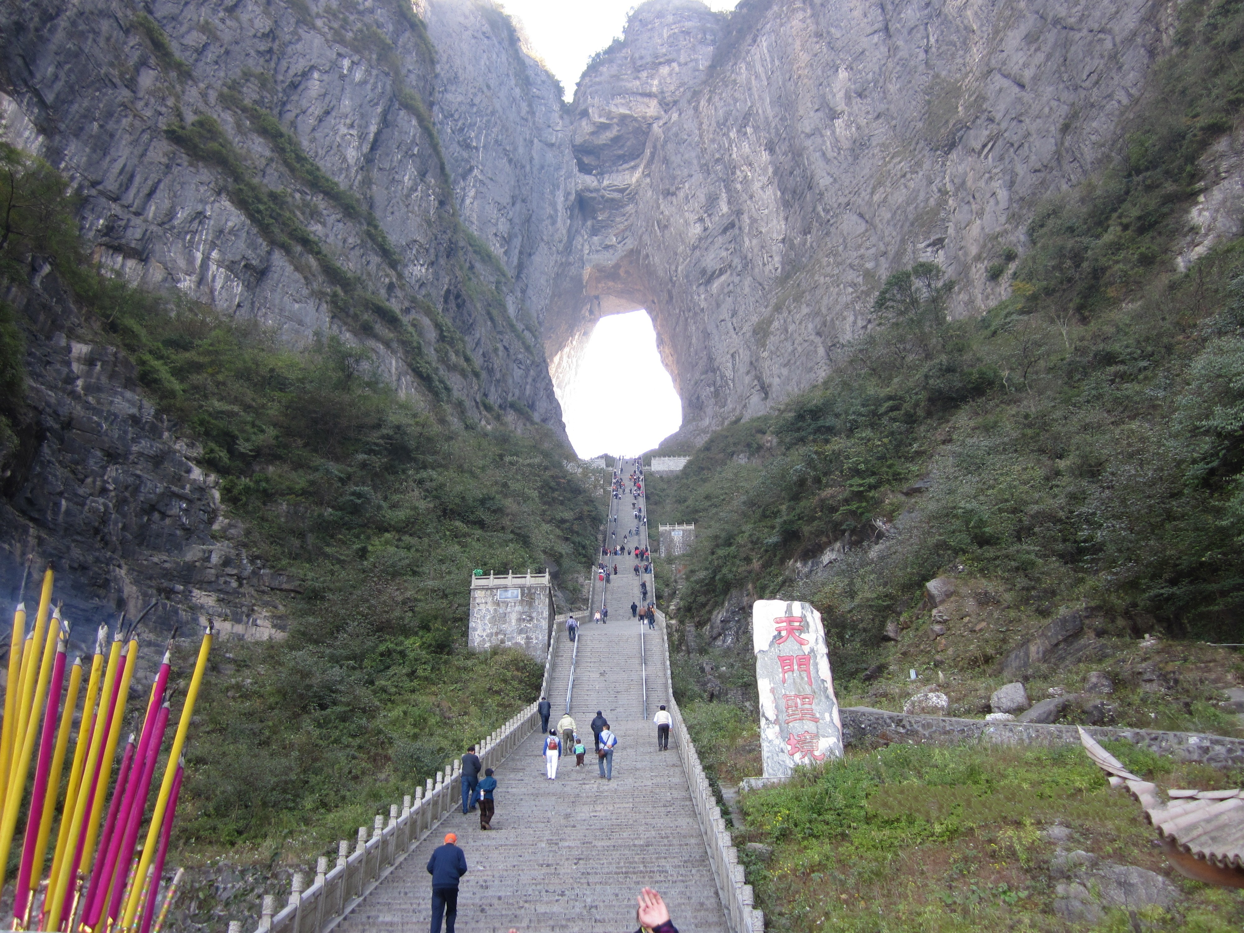 Tian Menshan Mountain, Zhangjiajie famous mountains, national forest park. This picture shows the Tianmen natural arch whose opening is reaching 131.5 m high.